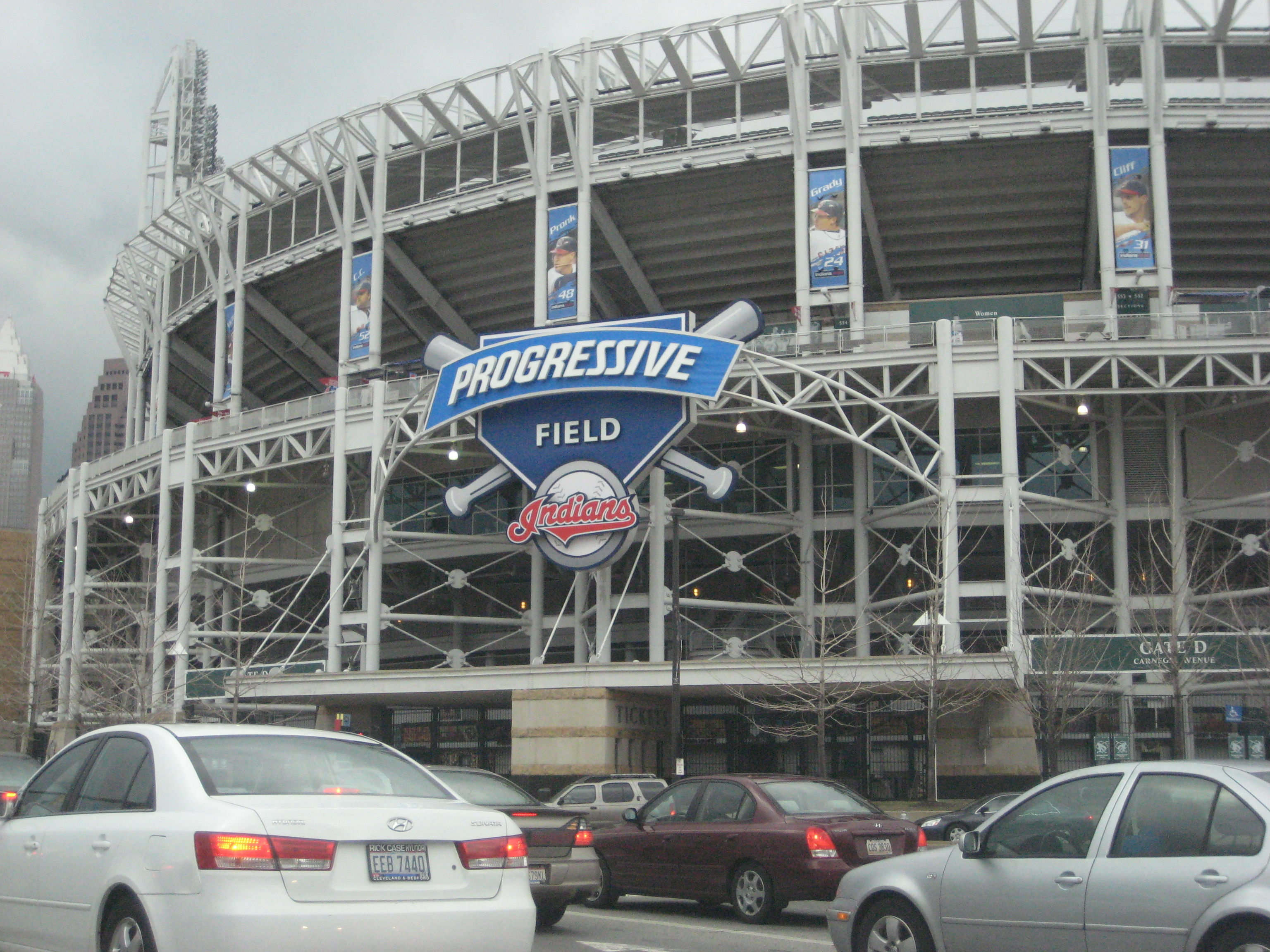 Exterior of Progressive Field, Carnegie Avenue at Ontario Street, Cleveland, Ohio